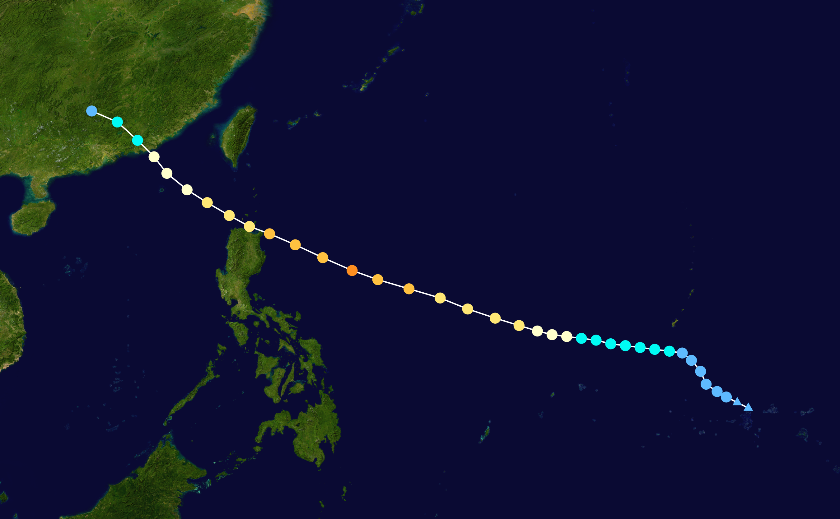 Typhoon Warren 1988 track. Uses the color scheme from the Saffir-Simpson Hurricane Scale.